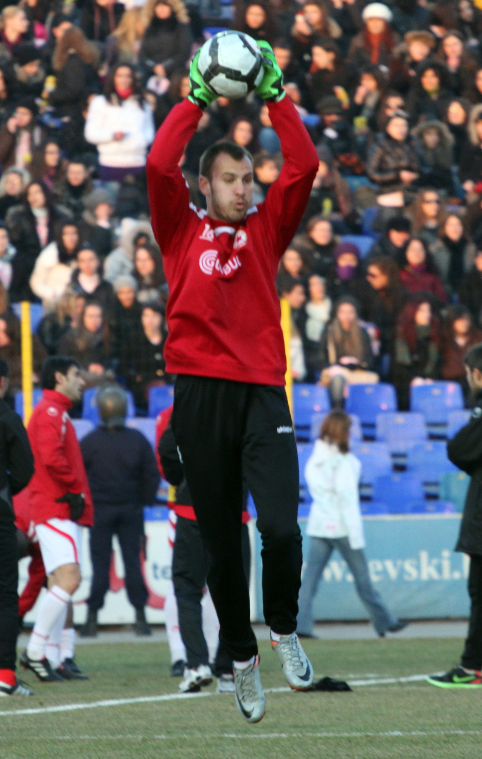 Blagoy Makendjiev - bulgarian soccer player, goakkeeper, he played for CSKA Sofia